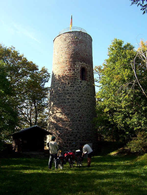 Germany / Hesse: Battenberg (Eder): tower of Castle "Kellerburg"